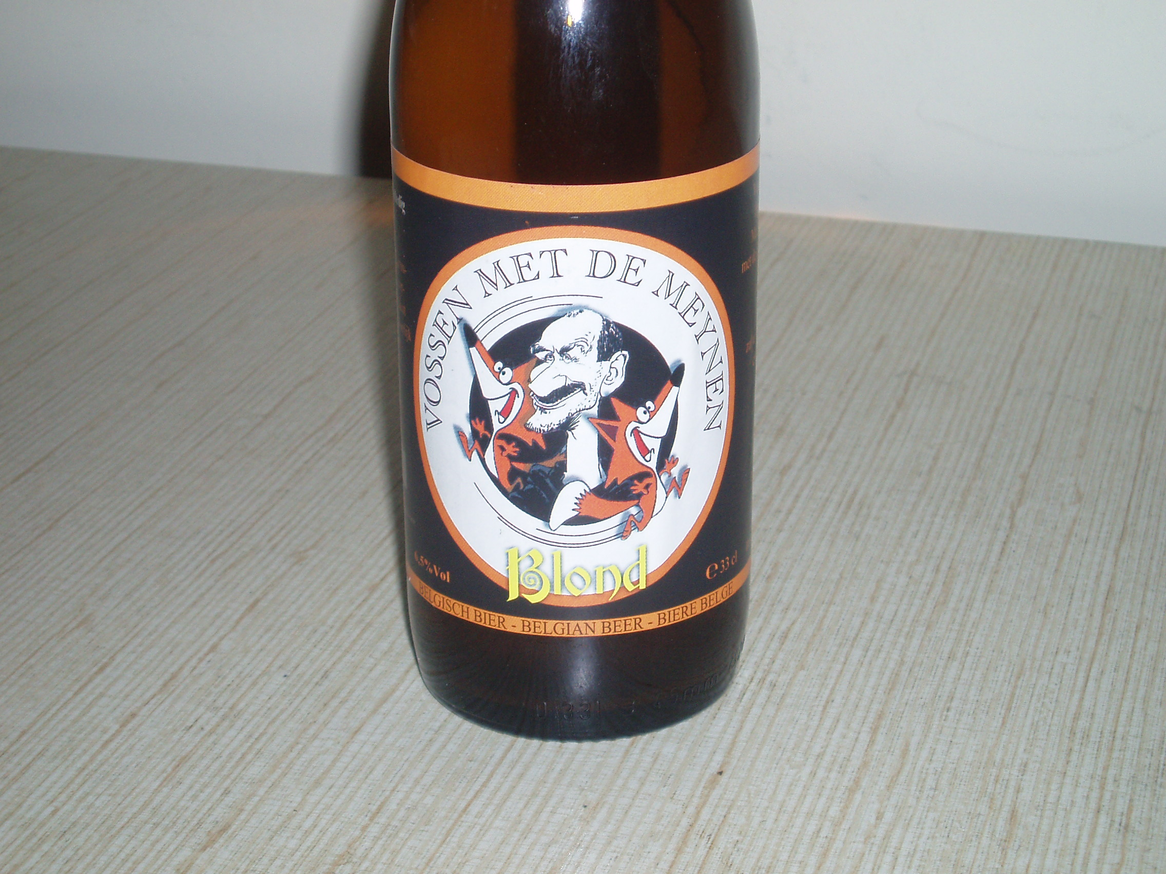 Vossen met de Meynen beer